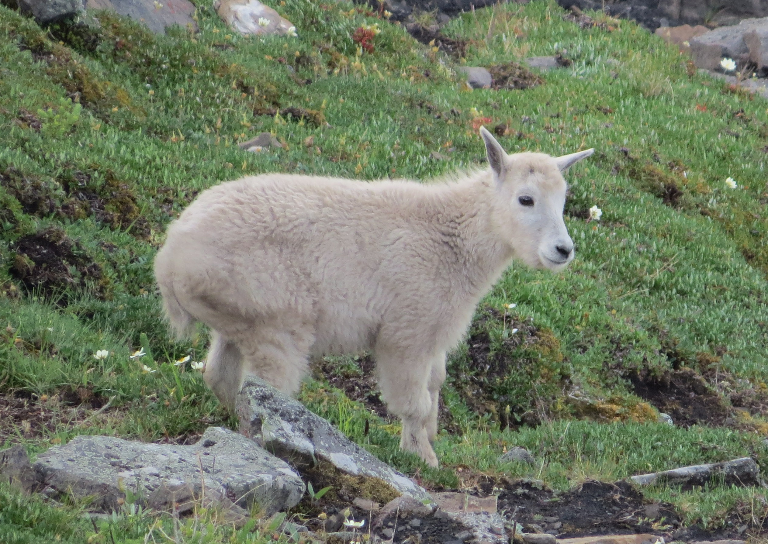 Photo of a mountain goat kid (2.5 months old male) taken the 23-07-2017 at Cawridge, Alberta (Canada).